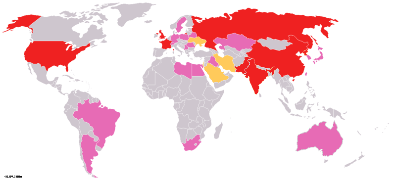 an update for Image:Nuclear weapon programs worldwide.png, based on that image (orignaly created by user:Fastfission). key: Red: Seven "nuclear weapons states" from the NPT (USA, Russia, UK, France, PRC, North Korea, India, Pakistan) Light orange: States suspected of having possession of, or suspected of being in the process of developing, nuclear weapons (Israel, Iran, Ukraine, Saudi Arabia) Pink: States which at one point had nuclear weapons and/or nuclear weapons research programs. Historical states have been represented by their successor states (i.e. Yugoslavia by Serbia and Montenegro, as they apparently inherited the nuclear materials of the socialist state after it fragmented).